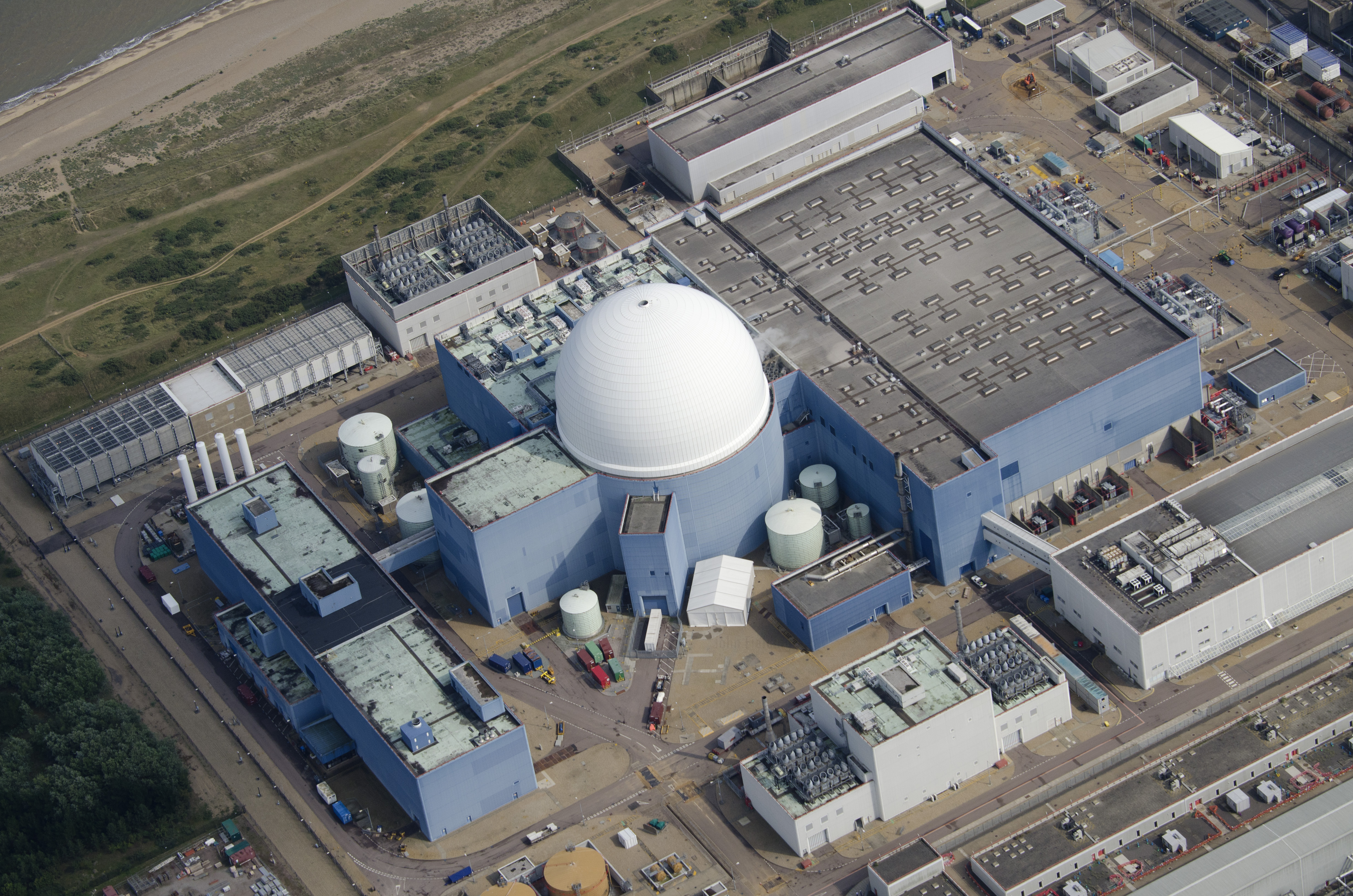 Aerial photograph of Sizewell B Nuclear Power Station, Électricité de France (EDF's) nuclear power station in Suffolk, England. This plant supplies 3 % of the UK's electricity. The distribution of the power is via the Cheung Kong Group otherwise known as UK Power Networks.